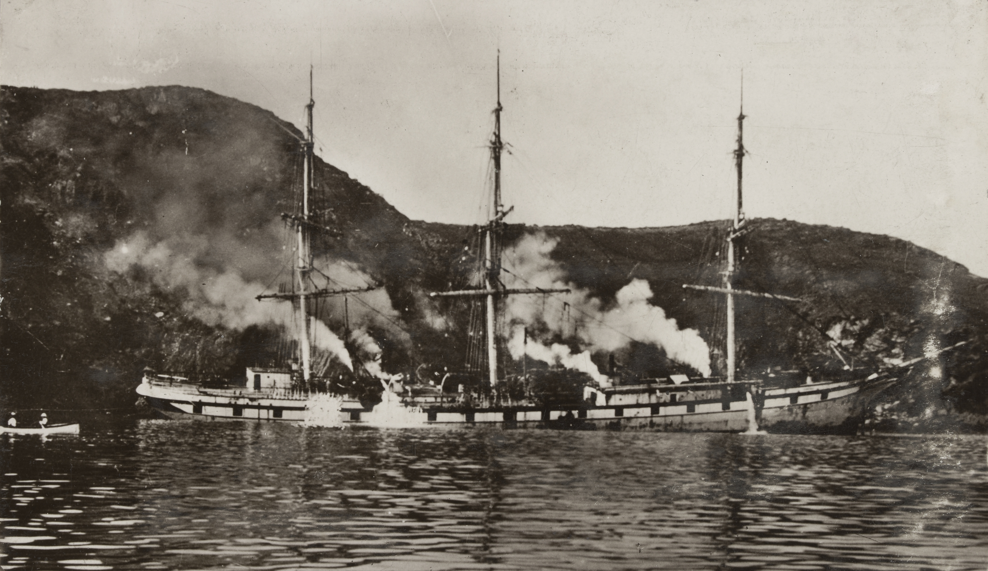 Original caption: “FRENCH SHIP SOCOA ON FIRE AT CADGWITH. [Cornwall, England]. Three masted full-rigged sailing ship on fire and very close to cliffs.”